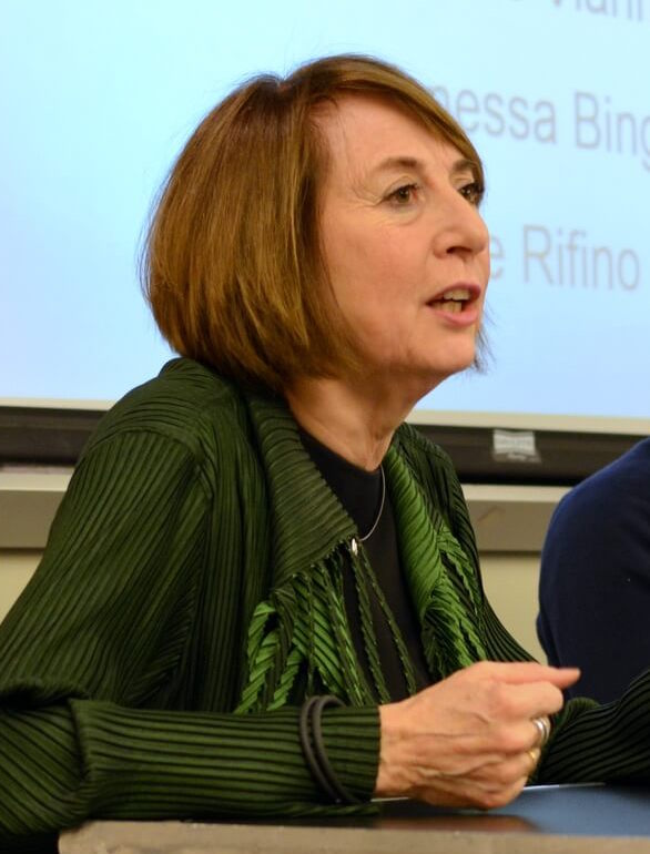 Portrait of Cathy Davidson speaking at a Futures Initiative event at the Graduate Center of the City University of New York.